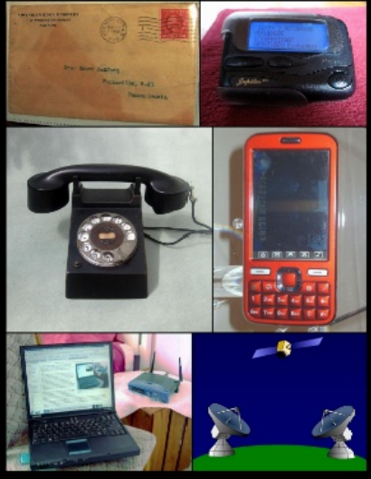 This is a collage image of different communication mediums– clockwise from the upper right– pager, cell phone, satellite, computer–internet, old telephone, letter.